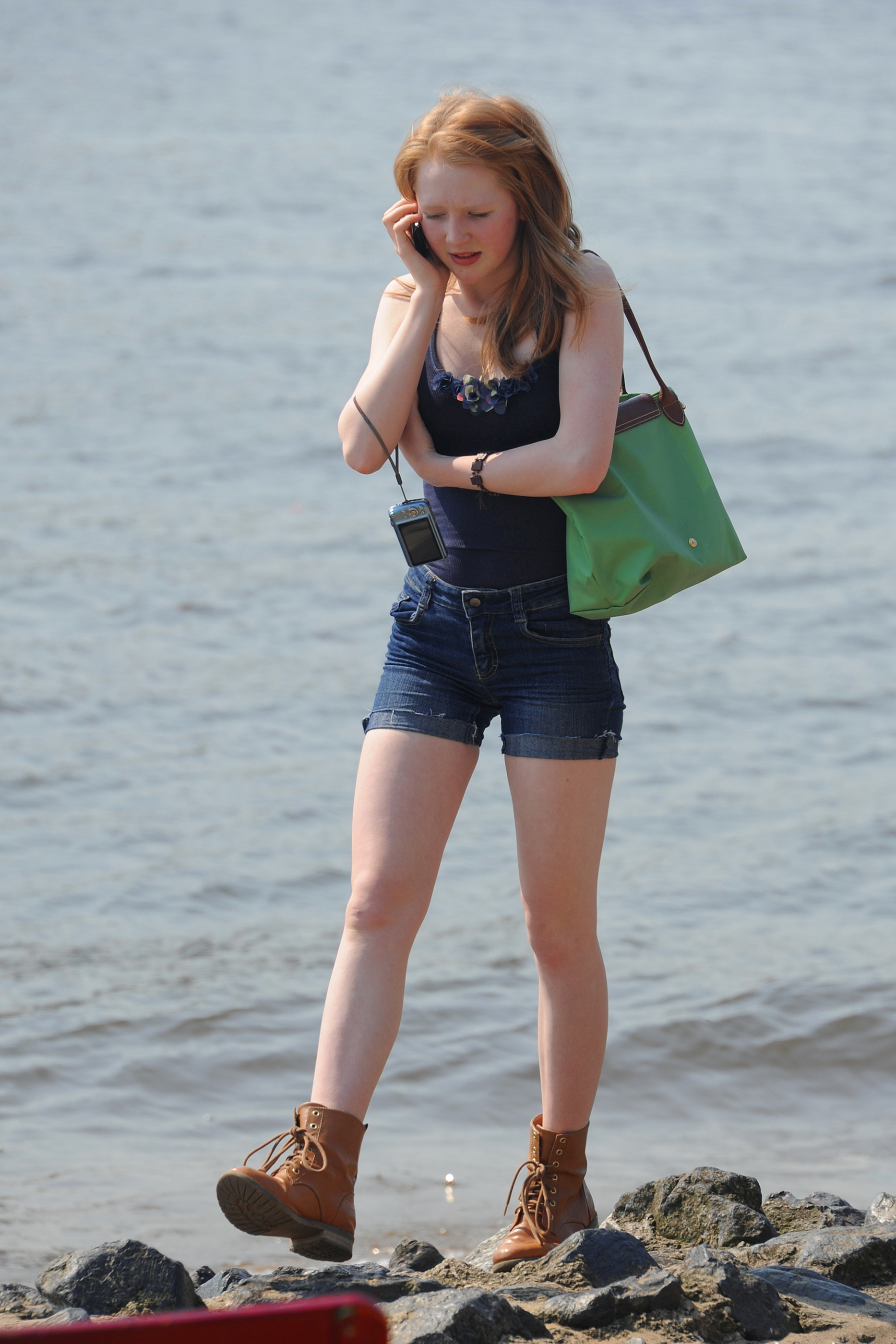 Girl with mobile phone near the water.